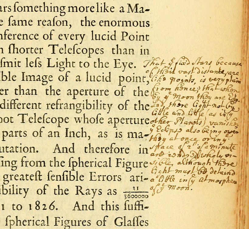 Marginalia from a 1704 printing of Newton's Opticks now held at the Boston Public Library. From